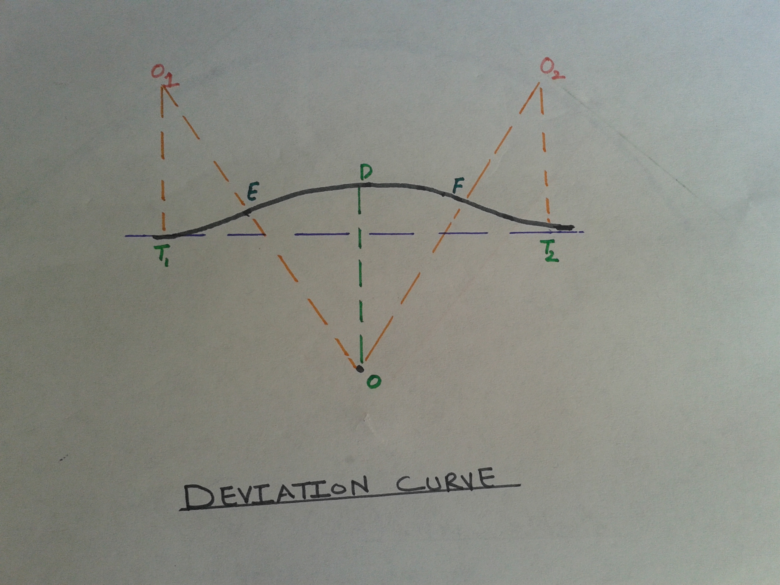 Curve